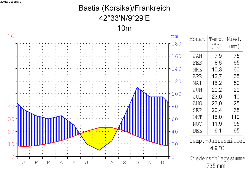 climate chart in the format by Walter and Lieth, metric, °Celsisus and millimeters, made with Geoklima 2.1